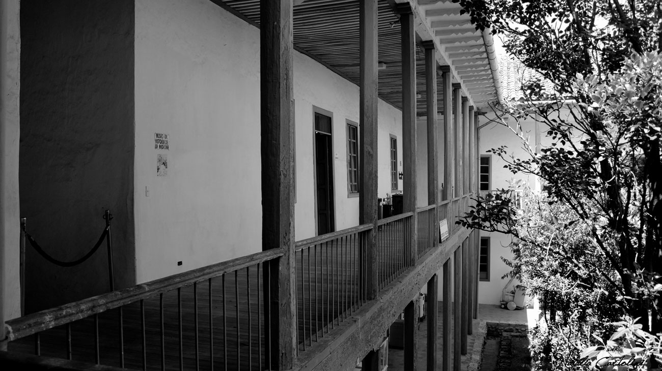 Fotografia del los pasillos del Museo de Historia de Medicina en Cuenca, Ecuador.